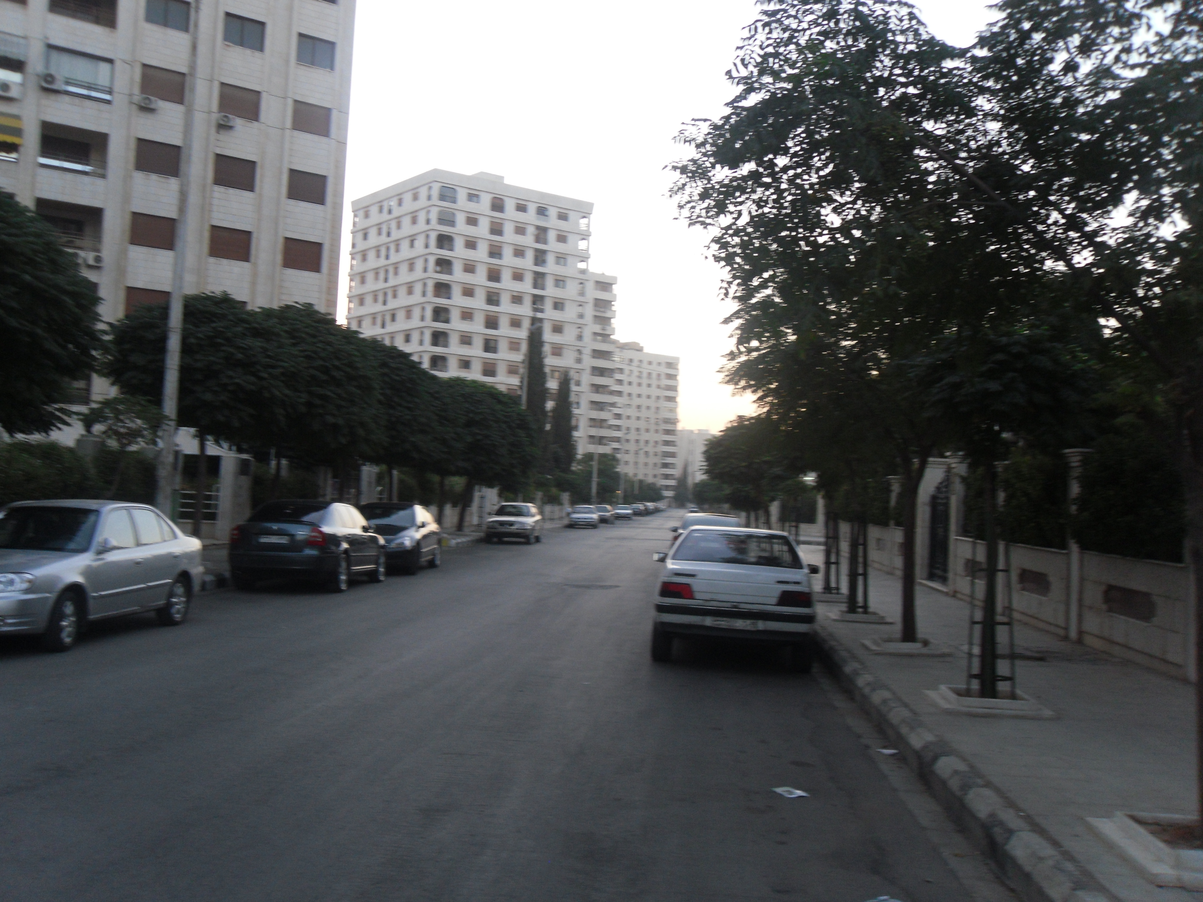 A street in the Kafarsouseh neighborhood